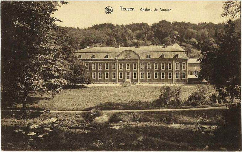 Old postcard view of Sinnich Castle, formerly Sinnich Abbey, near Teuven (Voeren/Fouron), Belgium.